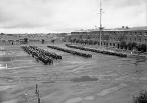 Divisions in progress at HMS ST VINCENT, the training establishment at Gosport, Hampshire in which pilots and observers of the Fleet Air Arm spend their first few weeks. Note the masthead at one side of the parade ground.